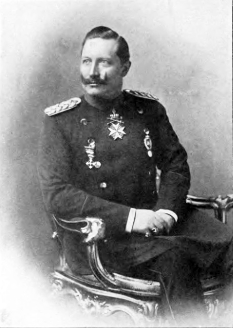 The German emperor, king Wilhelm II v. Prussia (in 1859-1941, reign 1888-1918), in Prussian officer's uniform (Überrock). The simple Überrock with small order decoration was the knock about clothes of the military. Orders: Cervical orders: Protector cross of the Maltese Knight's order. In the buttonhole: a foreign (non-Prussian) order; it could be Italian.